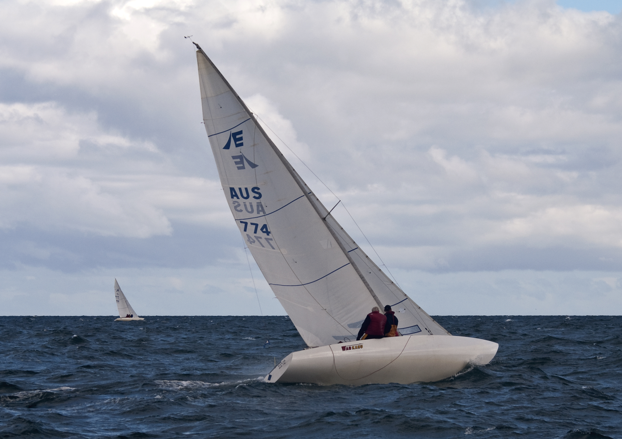 An Etchells keelboat sailing off North Haven in South Australia.